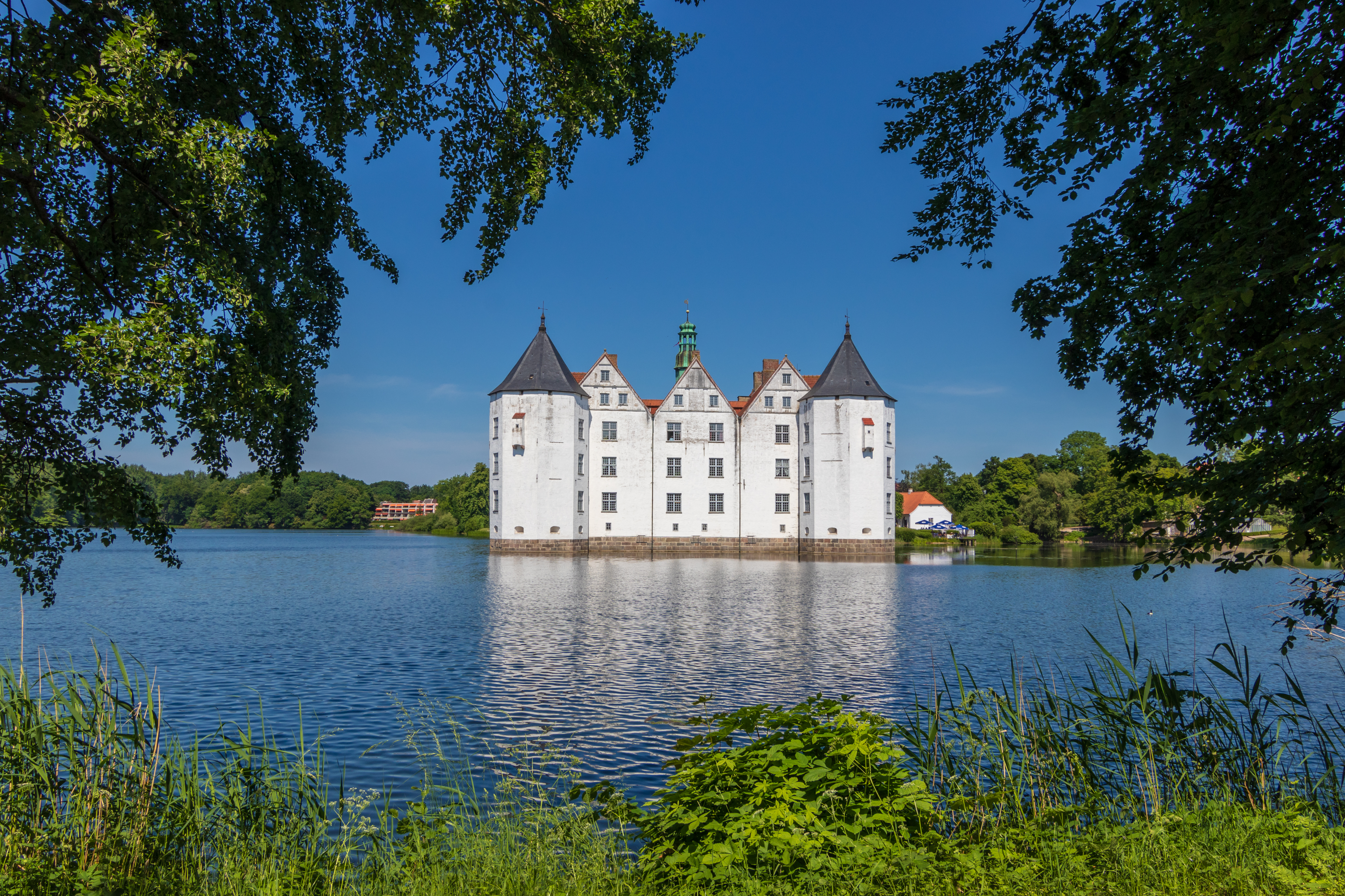 Glücksburg Castle